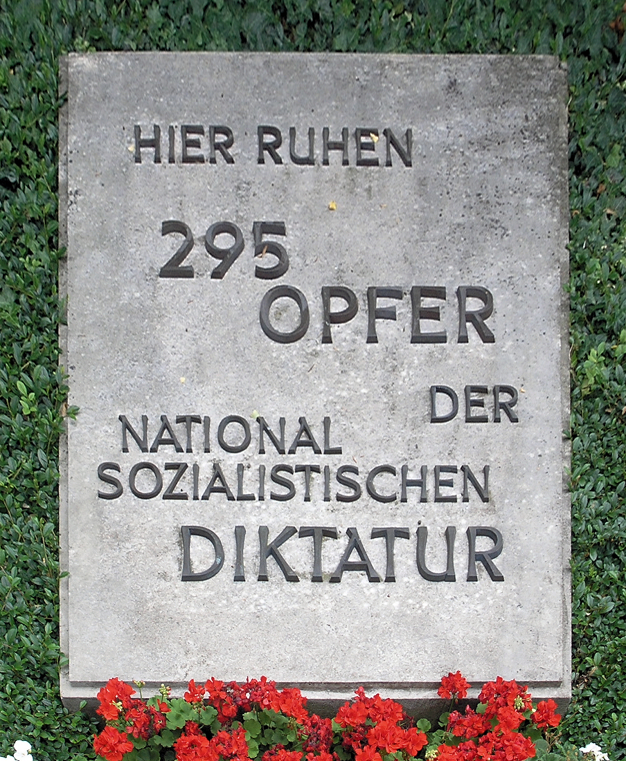 Gravestone, NS-Opfer, Seestraße 92, Berlin-Wedding, Germany Koordinate:52°33′8″N 13°21′16″E / 52.55222°N 13.35444°E